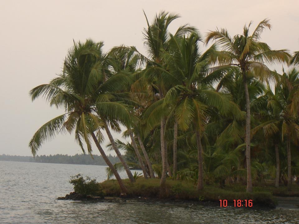 An evening in Karunagappally, Kerala, India